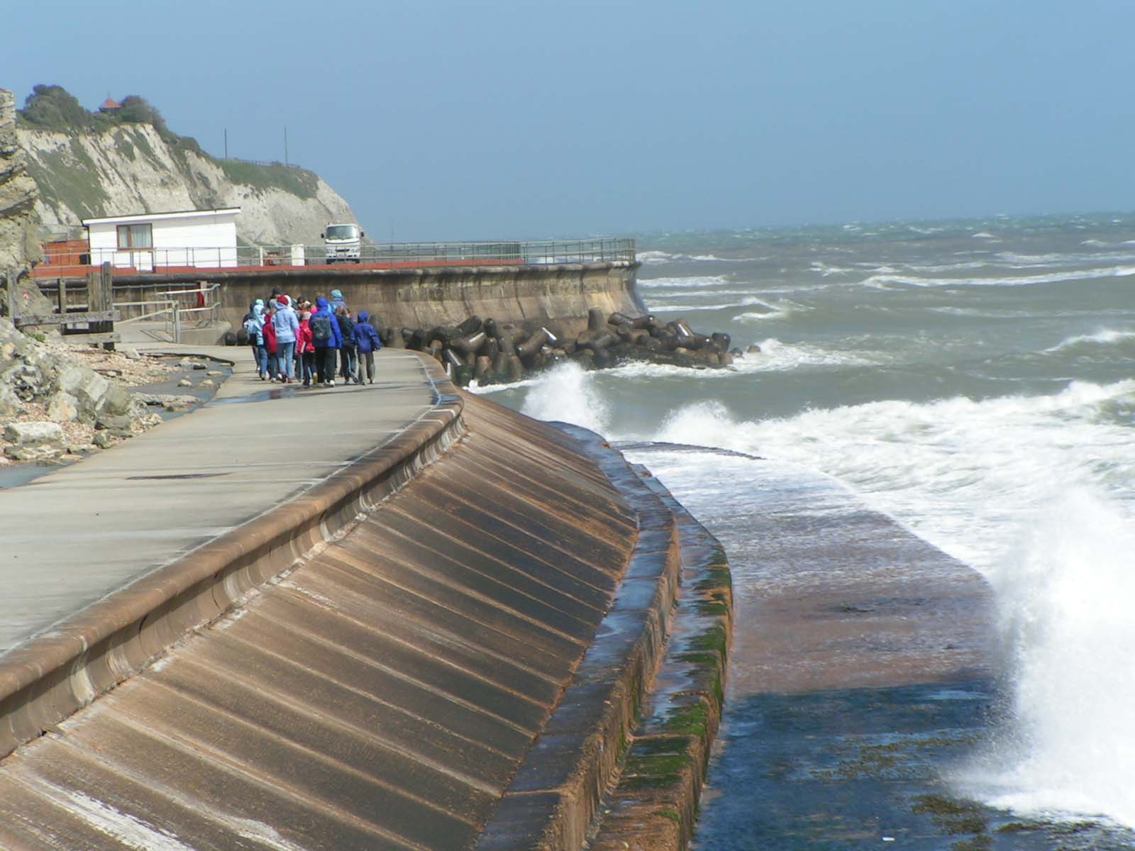 Isle of Wight Centre for the Coastal Environment